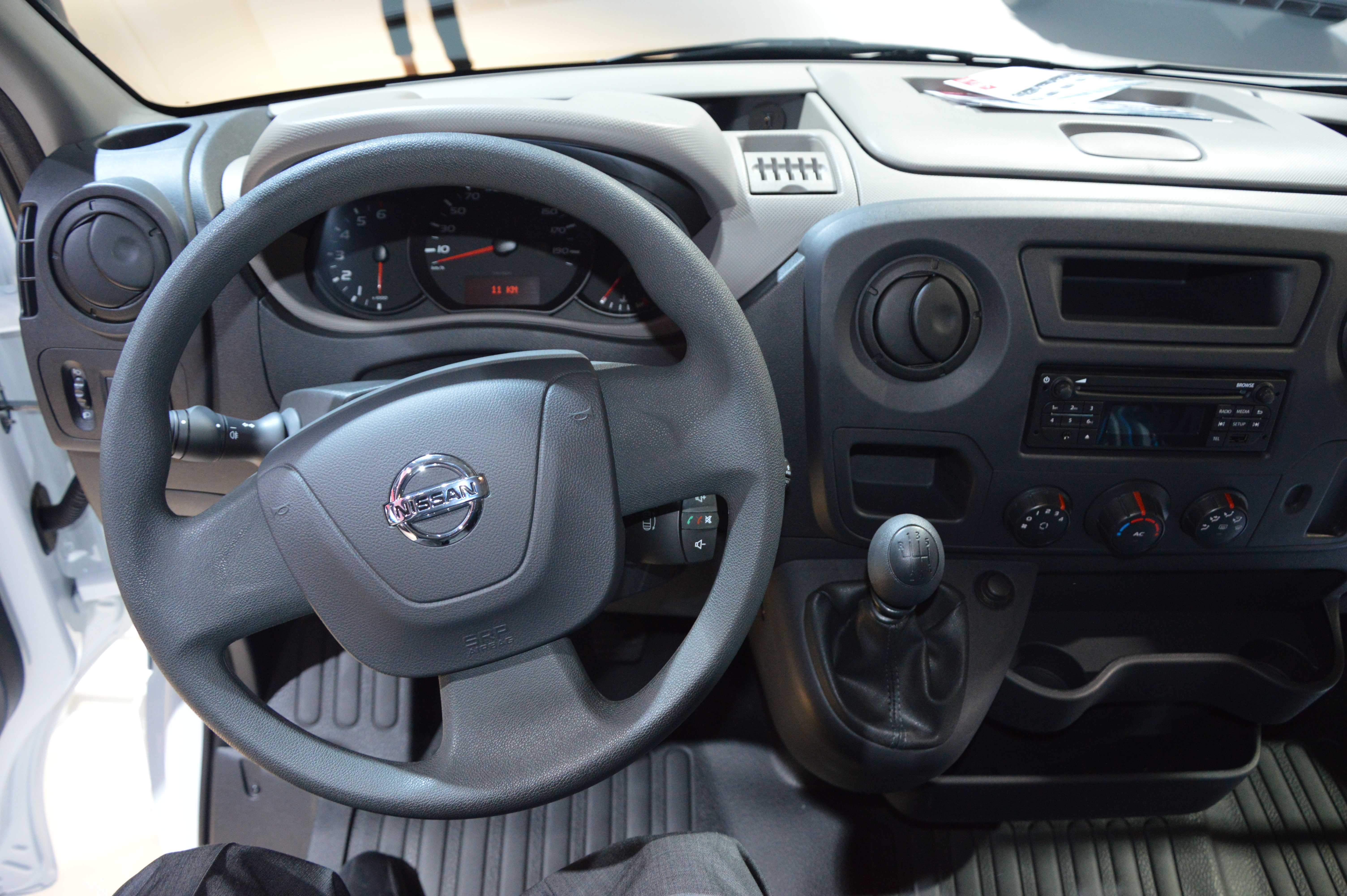 Cab interior of a Nissan NV400 3.5 to. Engine: 2.3 dCi / 2.299 ccm. Power: 92 kW. Photo taken at exhibition IAA 2014 in Hanover, Germany